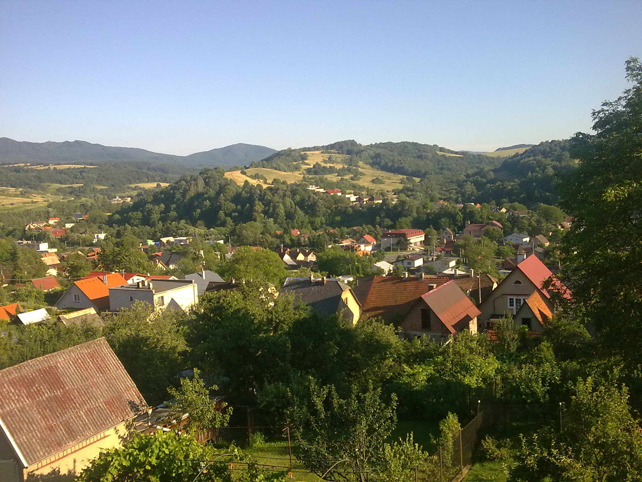 Raztocno